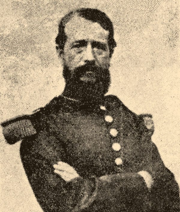 Quintín Quevedo